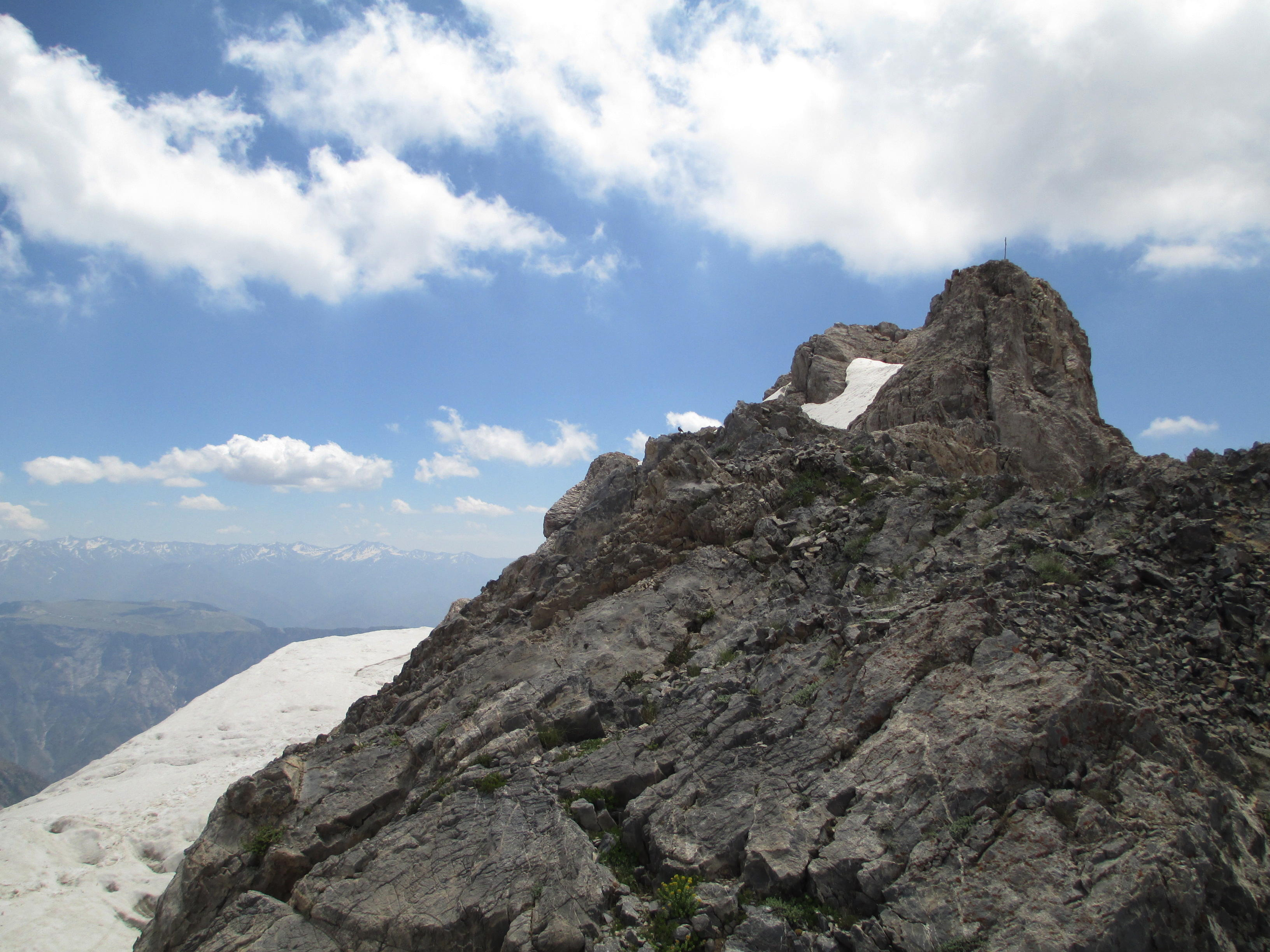 Chimgan peak. Tashkent area, Uzbekistan